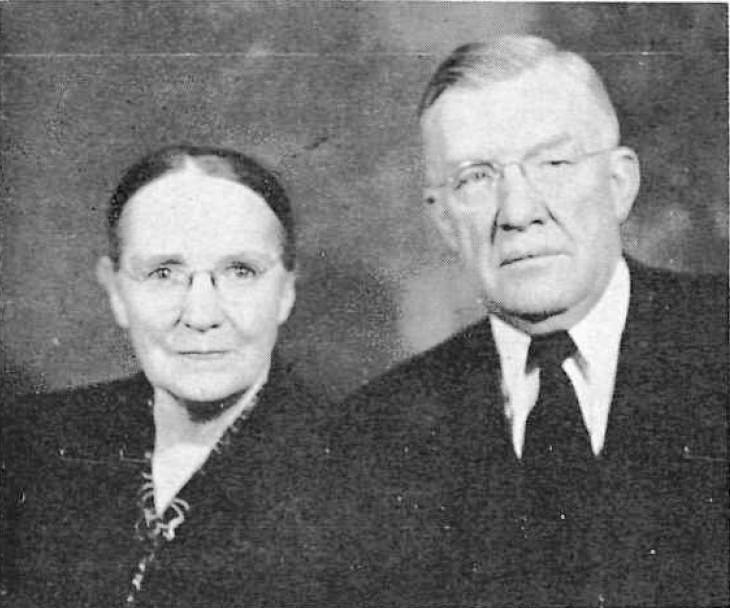 Photo of Oscar W. McConkie, was a Utah State Senator and his wife Vivian McConkie.